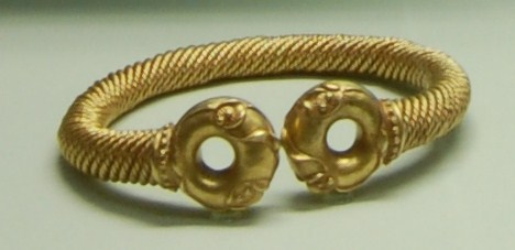 Showing the Newark Torc diplayed alongside the Sedgeford Torc